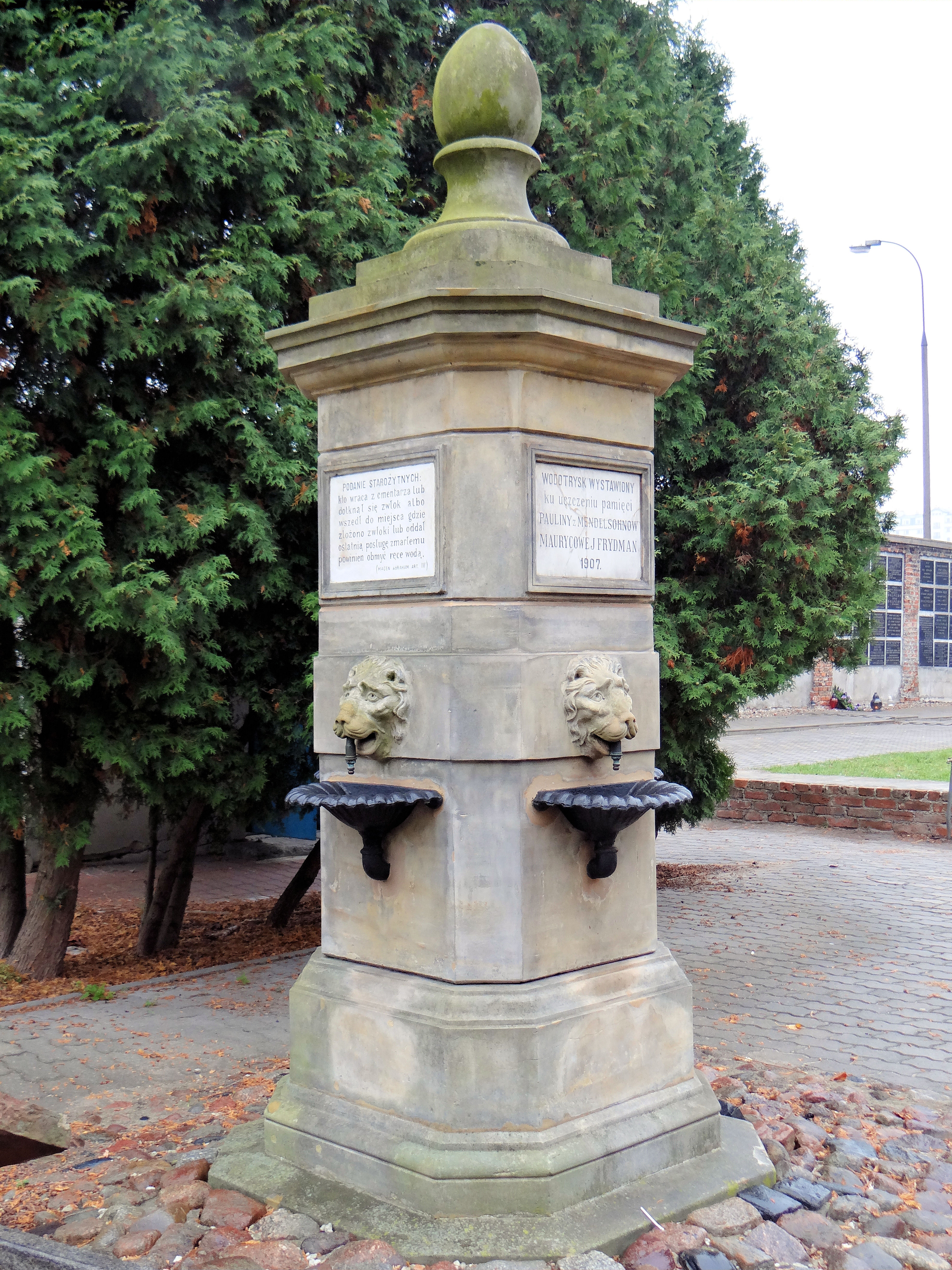 Wells at Jewish Cemetery in Warsaw